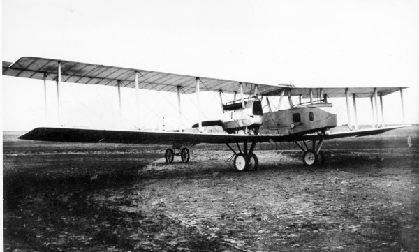 PictionID:43640882 - Catalog:16_004729 - Title:Gotha G V prototype Nowarra photo - Filename:16_004729.TIF - - - - - Image from the Ray Wagner Collection. Ray Wagner was Archivist at the San Diego Air and Space Museum for several years and is an author of several books on aviation --- ---Please Tag these images so that the information can be permanently stored with the digital file.---Repository: San Diego Air and Space Museum